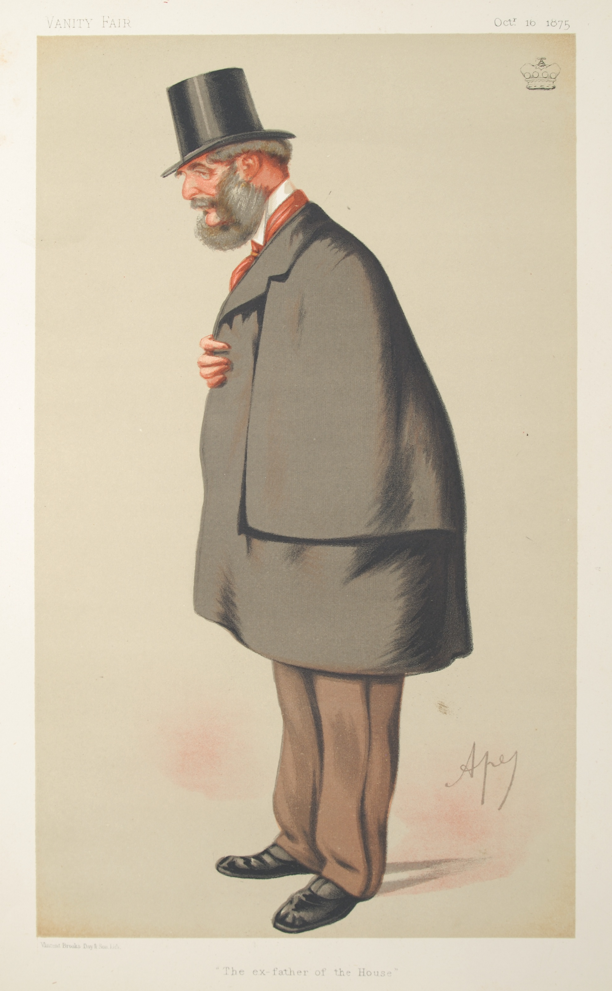 Statesmen No.215: Caricature of Lord Forester. Caption reads: "The ex-Father of the House."